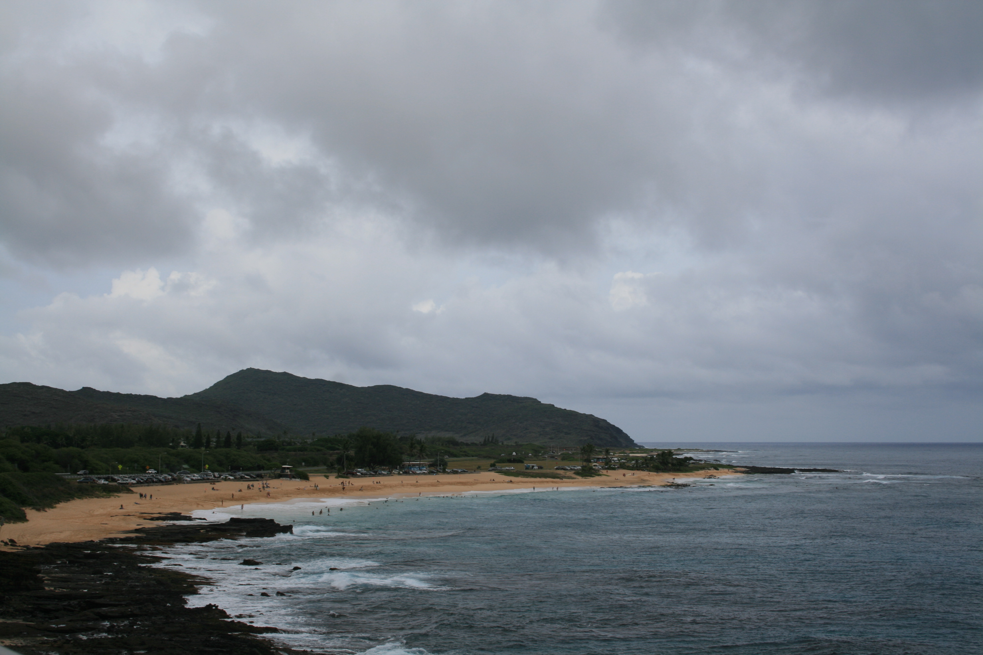 Koko Head from Halona Blowhole, Oahu, Hawaii, USA